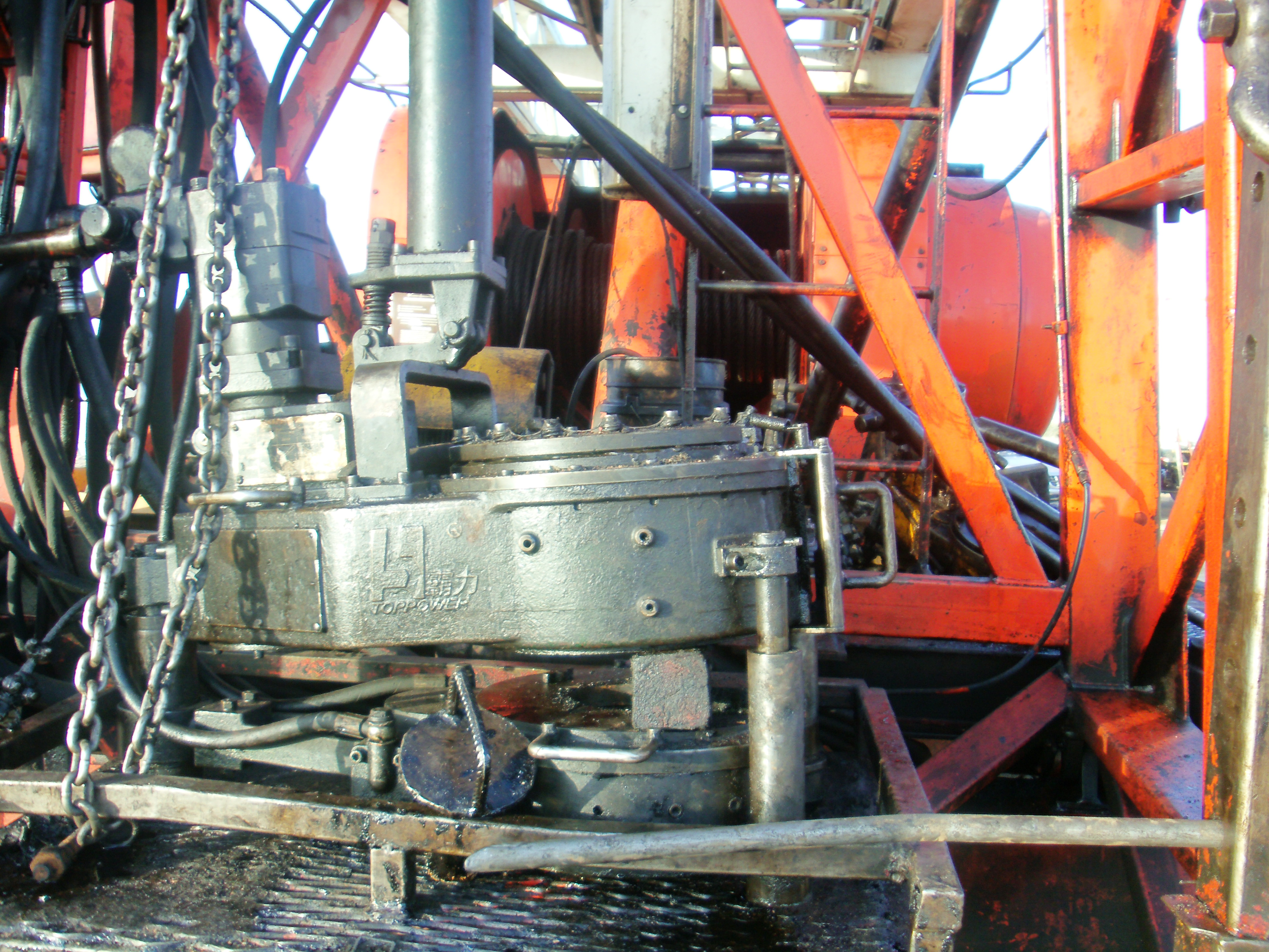 A rotary set in a rig